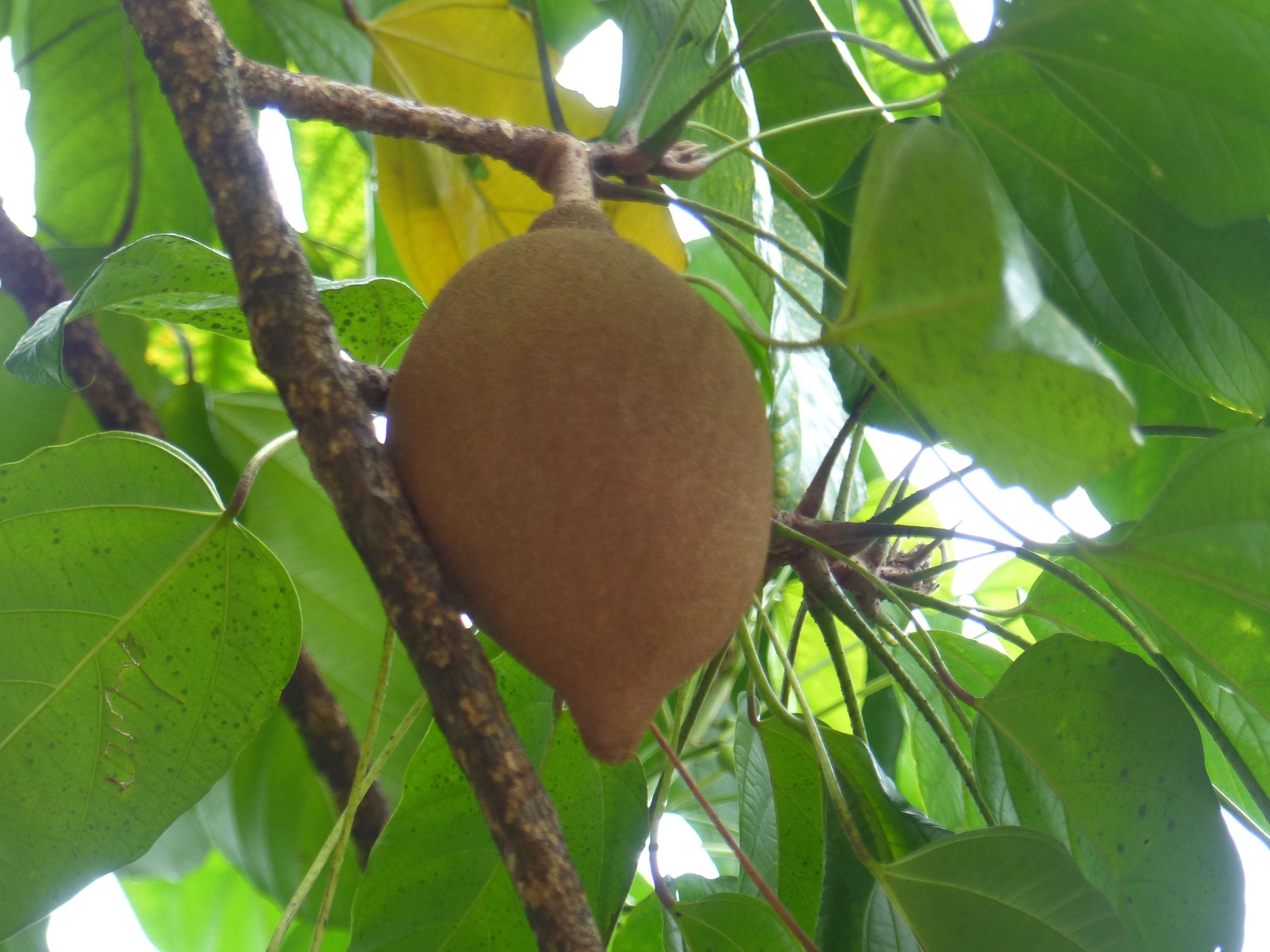 Pangium edule Reinw.